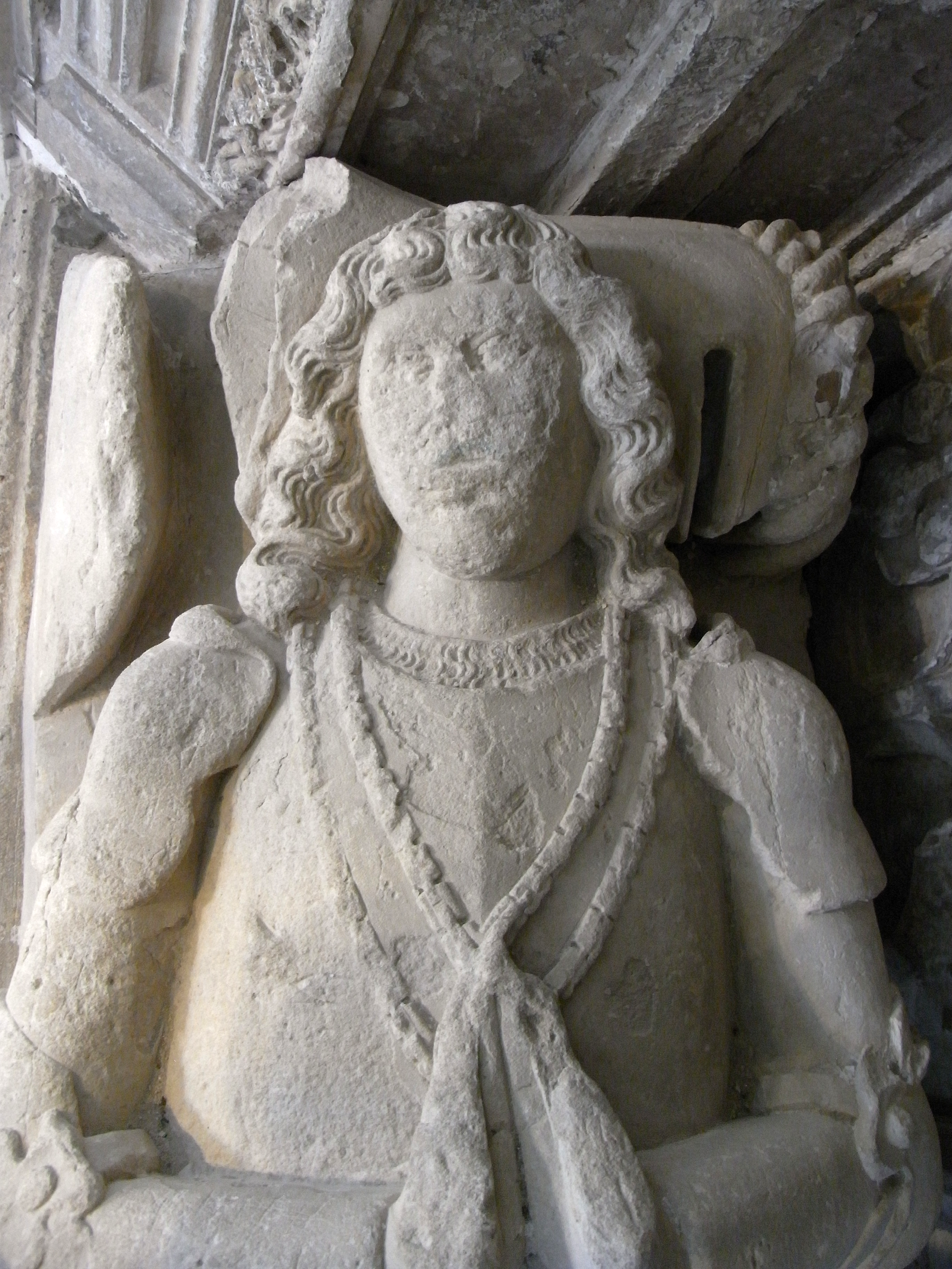 Effigy of Sir John Speke (1442-1518) in the Speke Chantry, Exeter cathedral, Devon, England